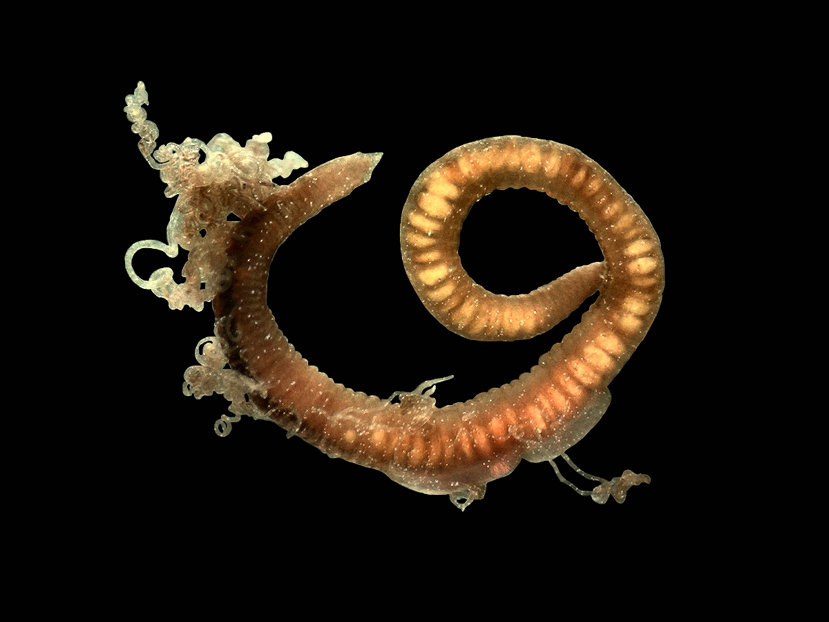 A common cirratulid from muddy sediments, sampled on the Belgian continental shelf.Length of the worm: ≈8 mm.